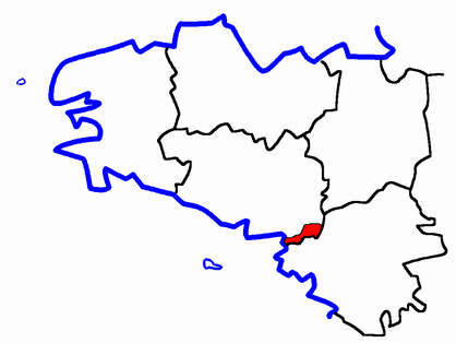 Description: Map for localisazion of cantons of Bretagne region in France Source: made by Hervé Tigier in april 2005 from another large map (published in 1990)